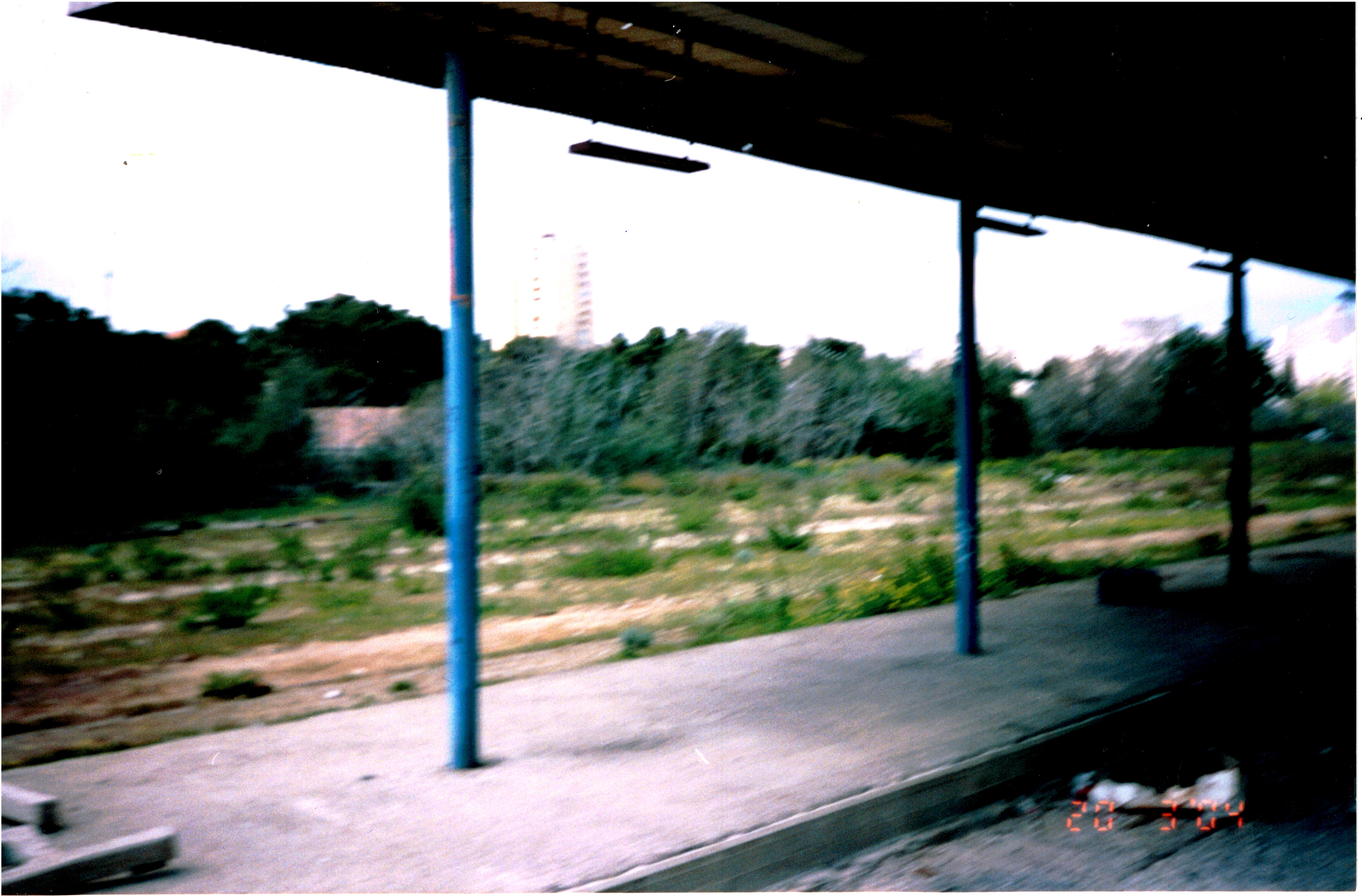 The docks of the Jerusalem station when it was abandoned (2004)